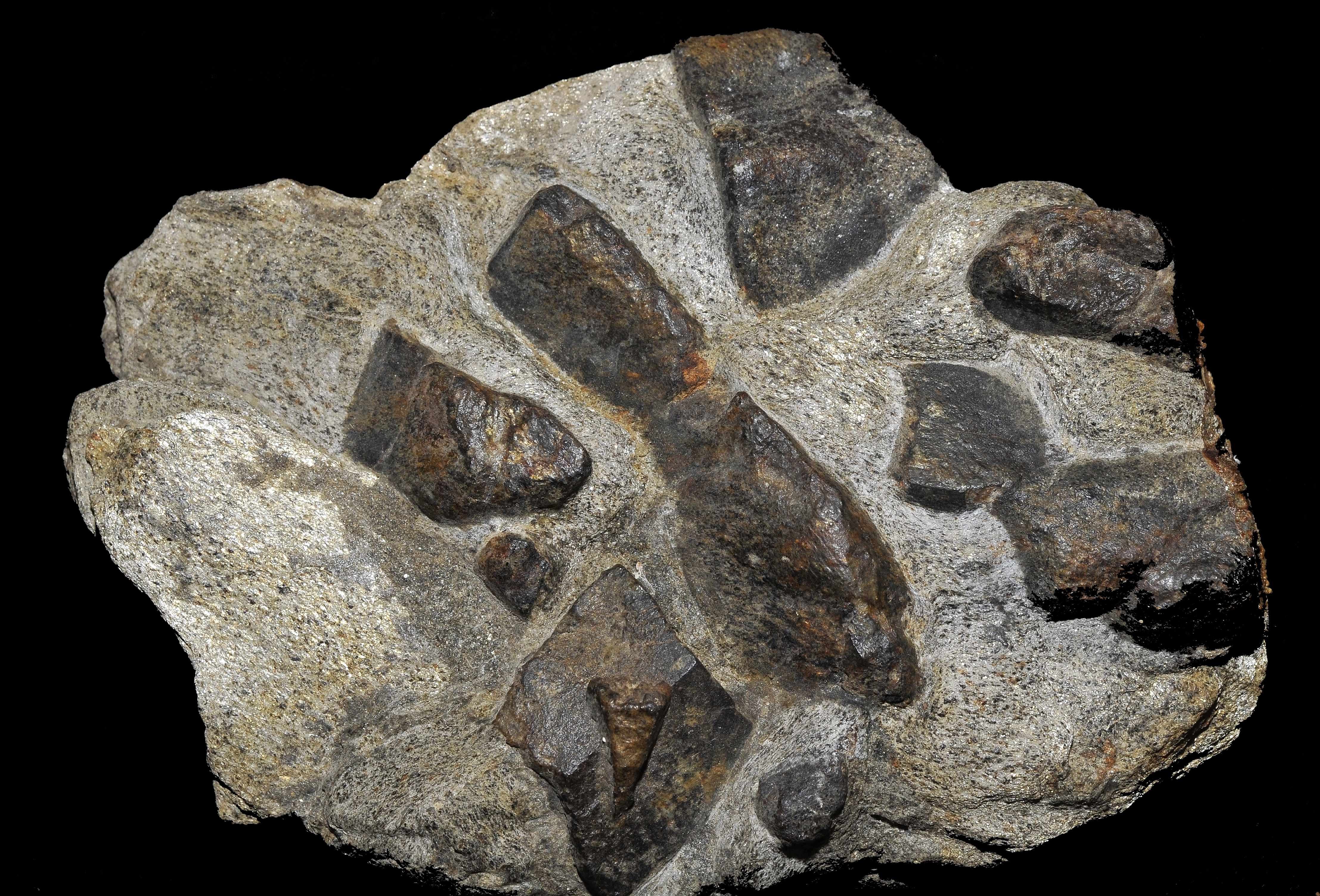 crystals of staurotide, crystals of mica schist : Micaschist outcrops, Scaër, , Finistère, Brittany, France